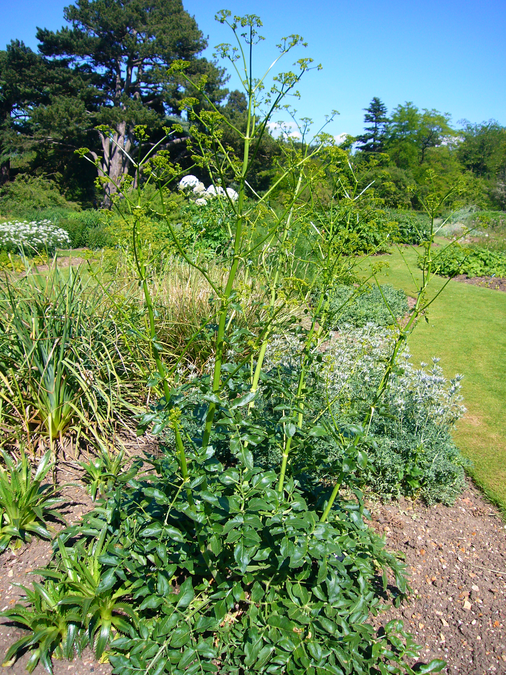 Opopanax chironium (flower) (photo taken in the Cambridge University Botanic Garden)